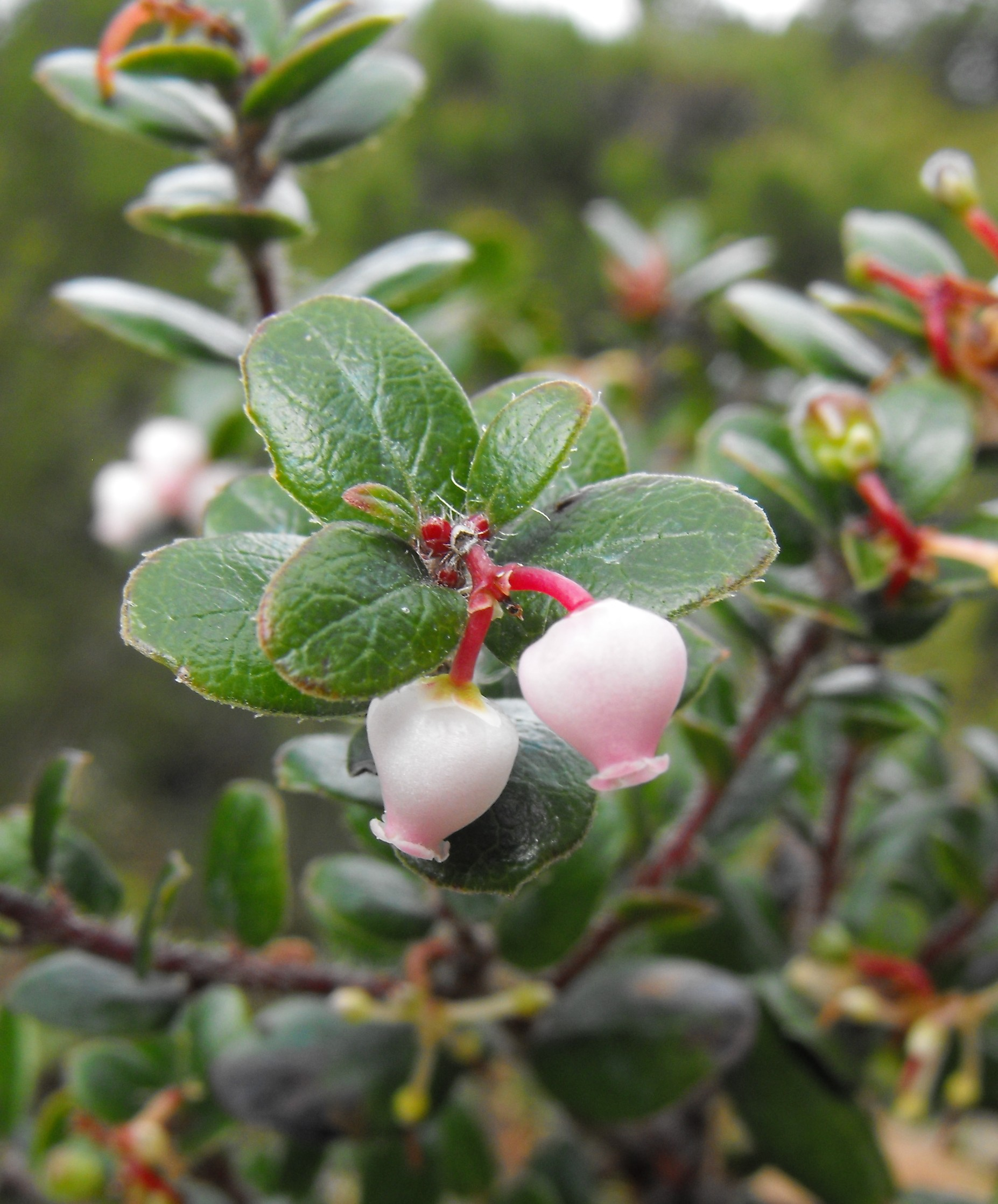 Arctostaphylos mendocinoensis, pygmy manzanita, endemic to Mendocino County, California and Sonoma County, California, where it is known from only one occurrence in the pygmy forests along the coastline. at the University of California Botanical Garden, California native plants section, Berkeley, California, USA. Identified by sign.